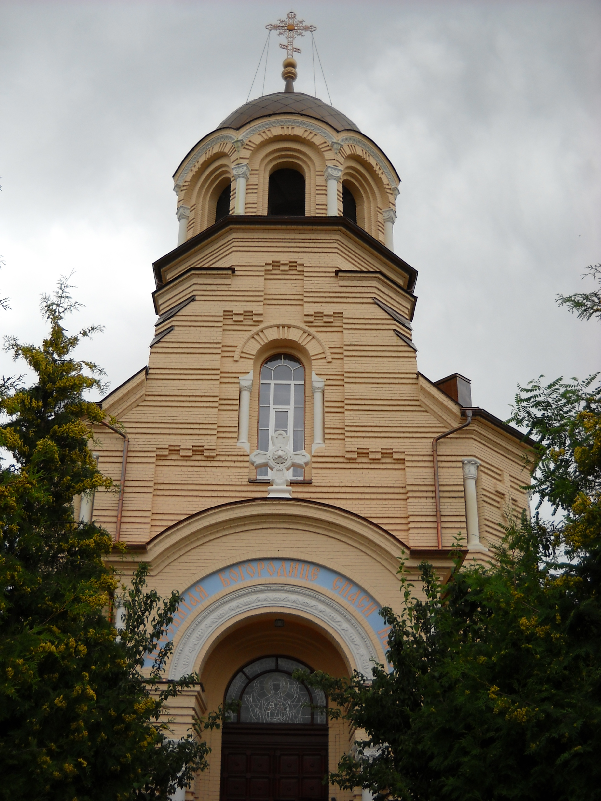 Orthodox Church of the Revelation of Theotokos